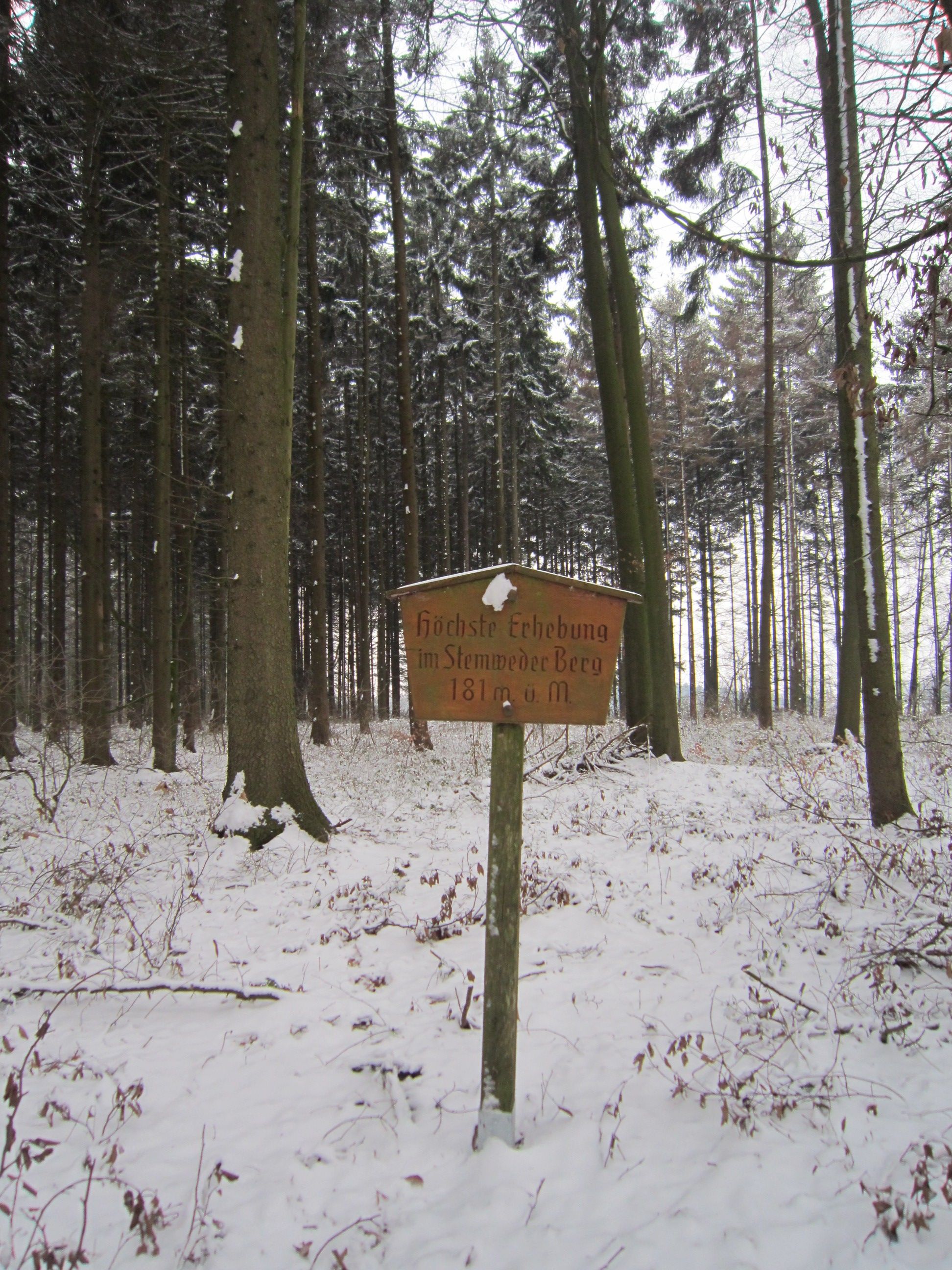 "Scharfer Berg" (highest hill of Stemweder Berg)